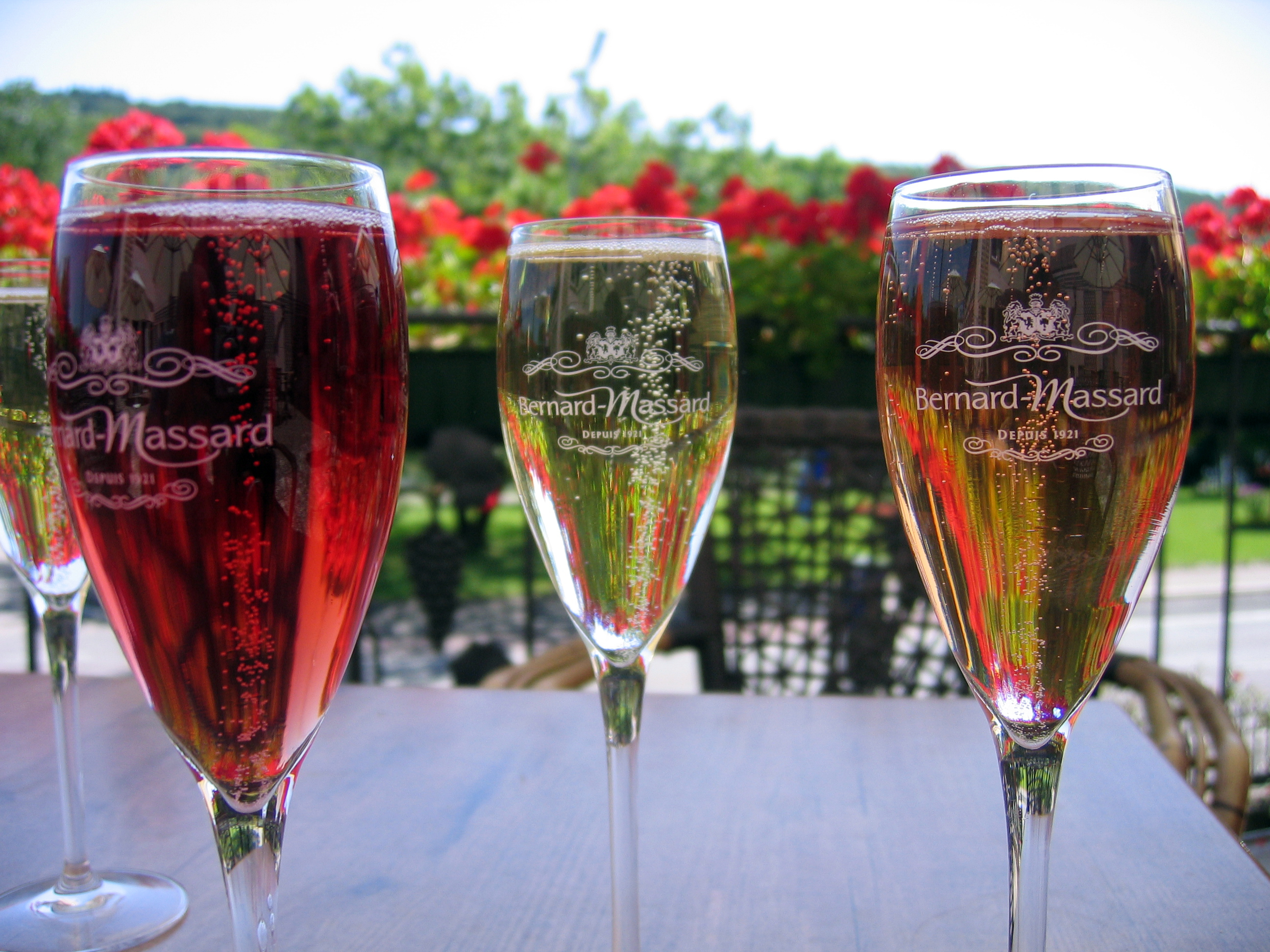 Sparkling cremant wines made from Bernard Massard in Luxembourg